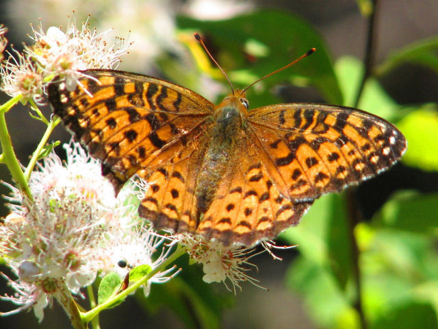 Atlantis Fritillary (Speyeria atlantis), Temagami, Ontario